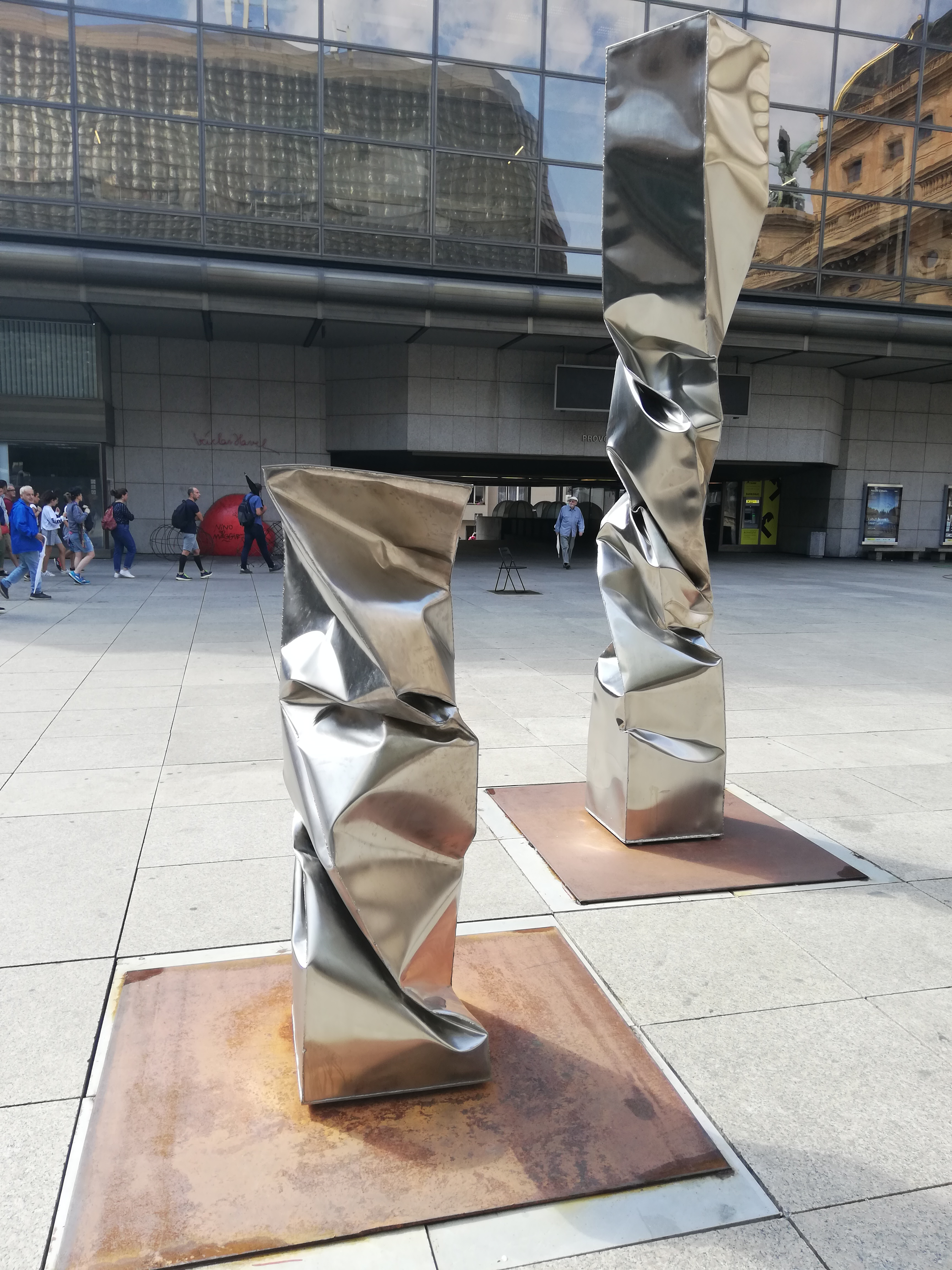 „Twisted“ is a sculpture exhibited in public space in Prague at Piazzetta of the National Theater (Vaclav Havel Square, 110 00 Nove Mesto - GPS coordinates: 50.08090, 14.41413) as part of the International sculpture festival „Sculpture Line 2019“. Author: sculptor Jan Dostál (* 1992); Material: stainless steel